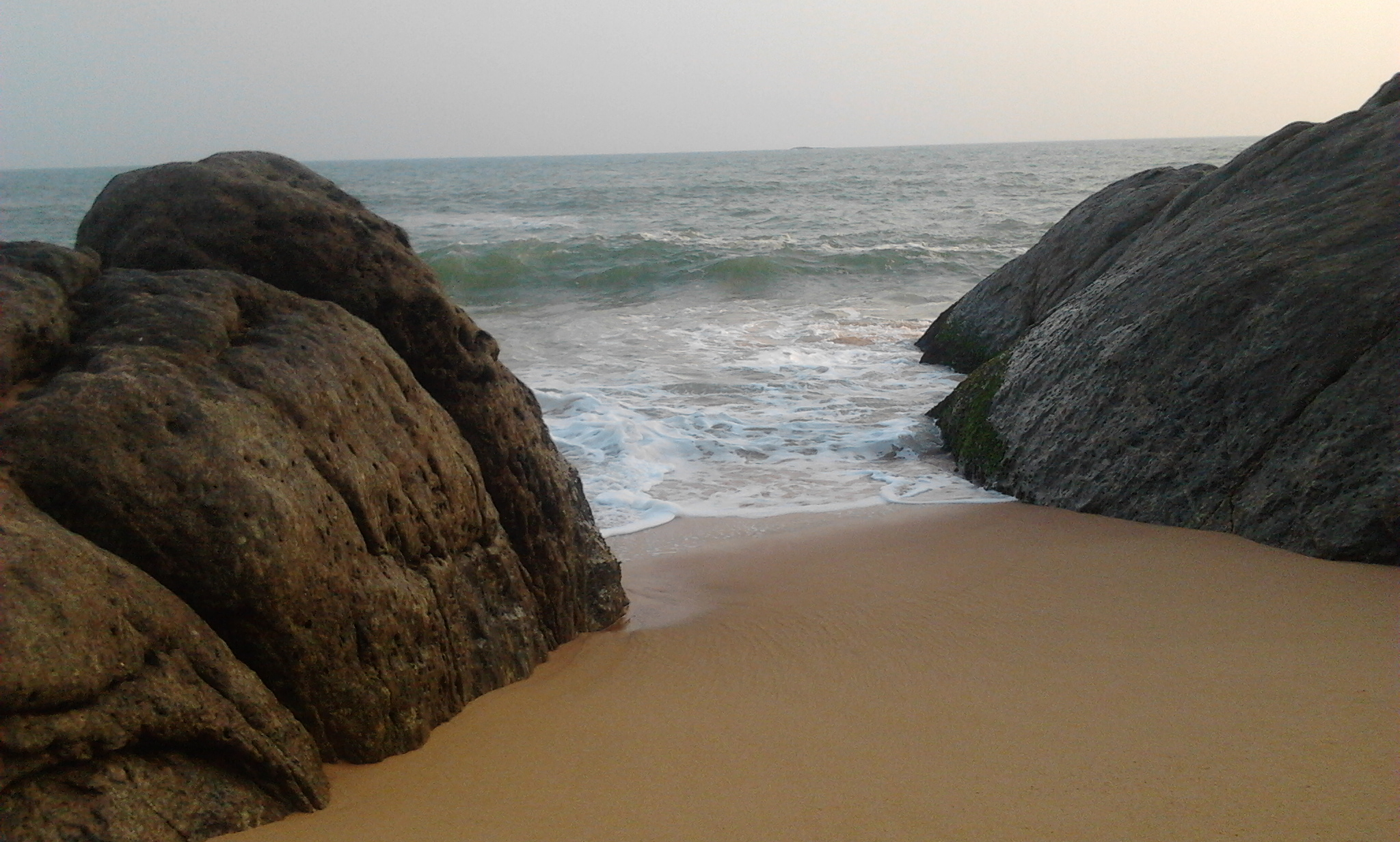 Litter free sand at muttom beach